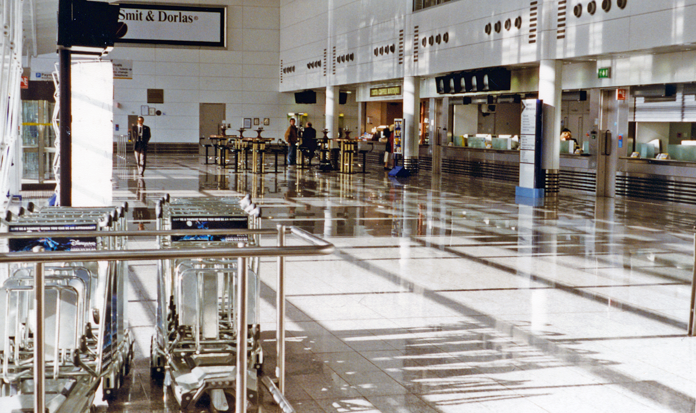 Ashford International Station, booking-hall, 1997. View NW, in February 1997 before the new Station was officially opened in May 1997.